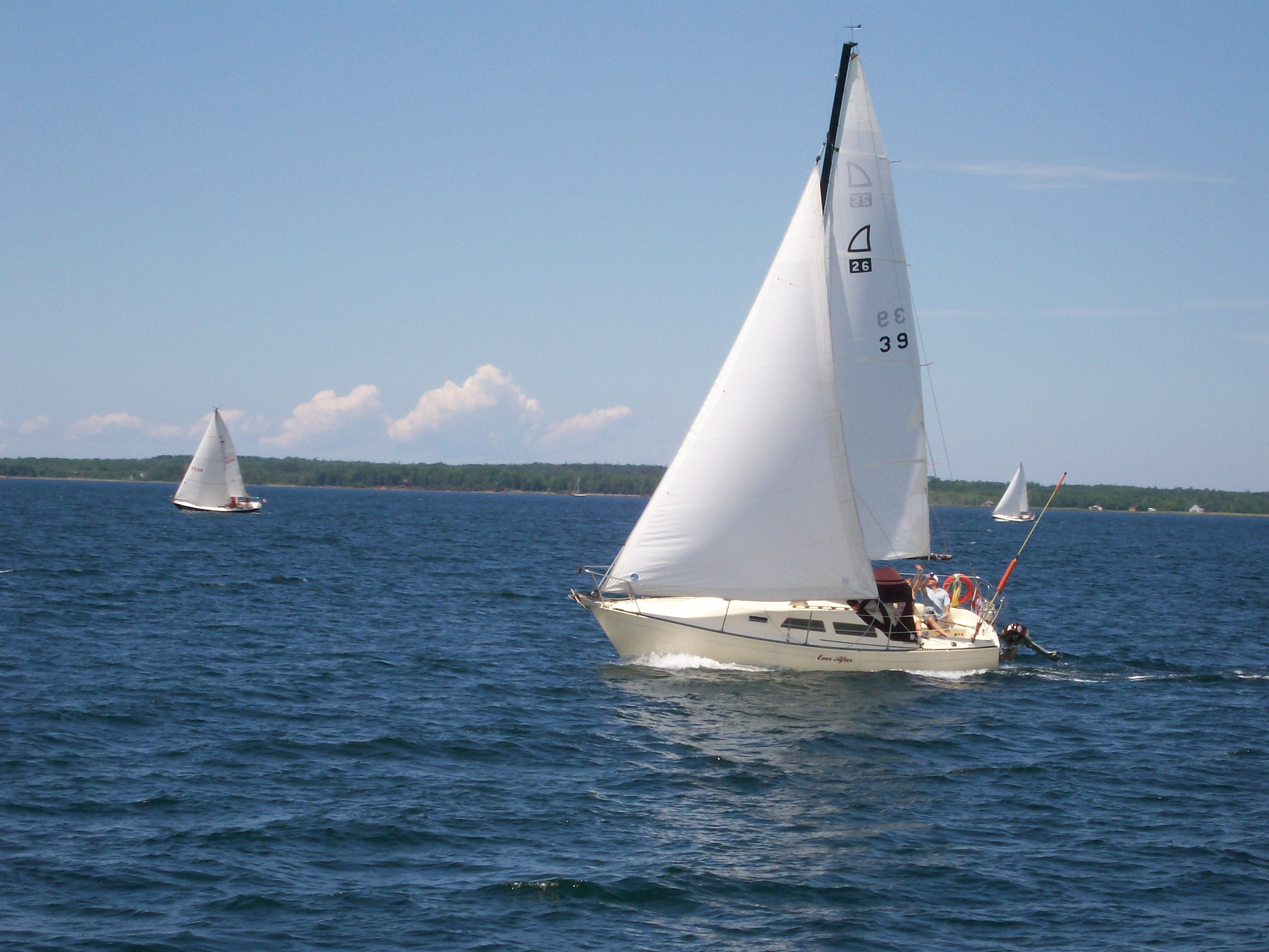 "Ever After" an Aloha 27 yacht under sail on Tatamagouche Bay, Nova Scotia in 2007.